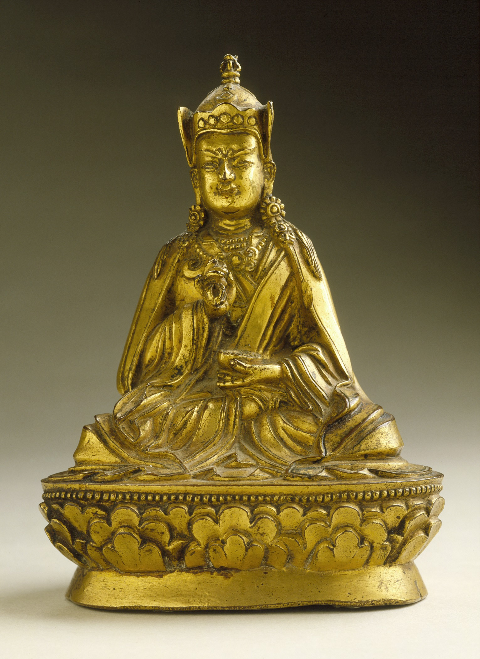 Bhutan, 17th-18th century Sculpture Amalgam gilt copper alloy 5 1/2 x 3 3/4 in. (13.97 x 9.53 cm) The Francis Eric Bloy Bequest (AC1994.117.2) South and Southeast Asian Art